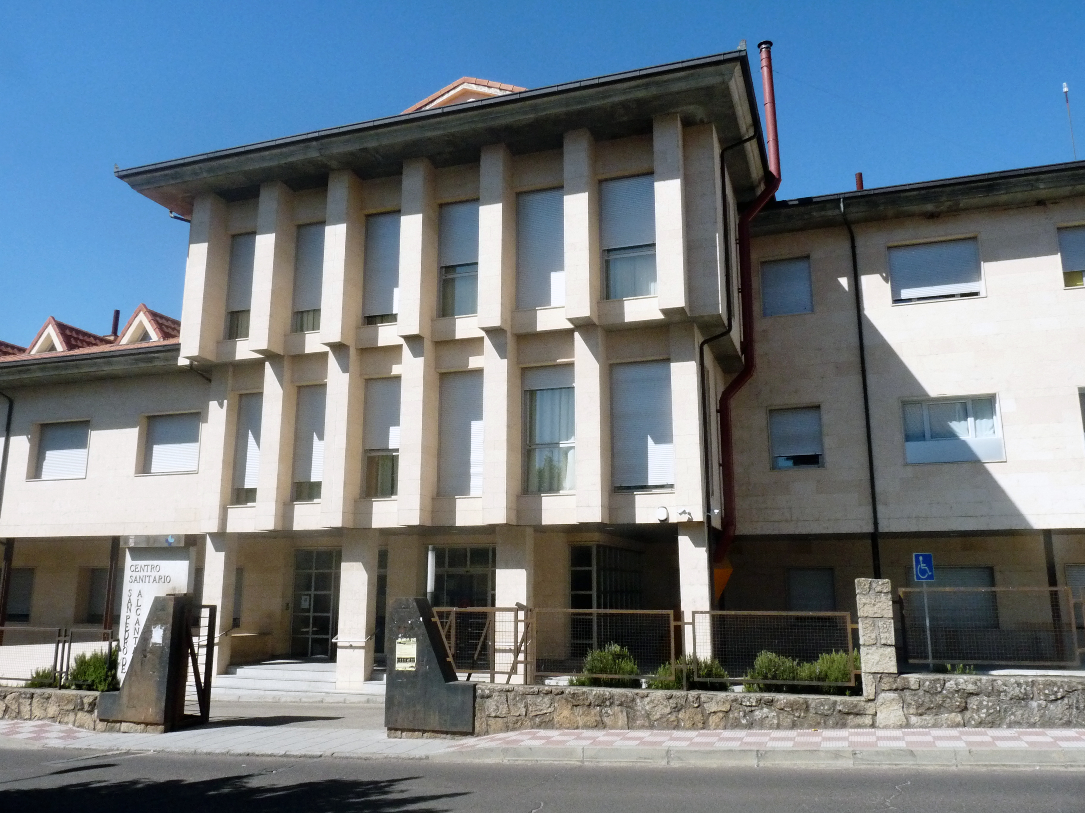 Health center, Arenas de San Pedro, Ávila, Castile and León, Spain.